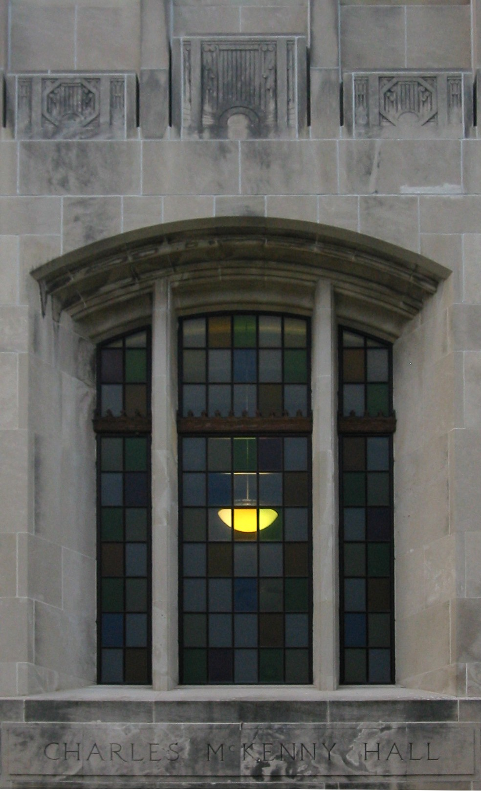 A window on McKenny Union at Eastern Michigan University. Eastern Michigan University web site, History of McKenny Union, History of Water Tower